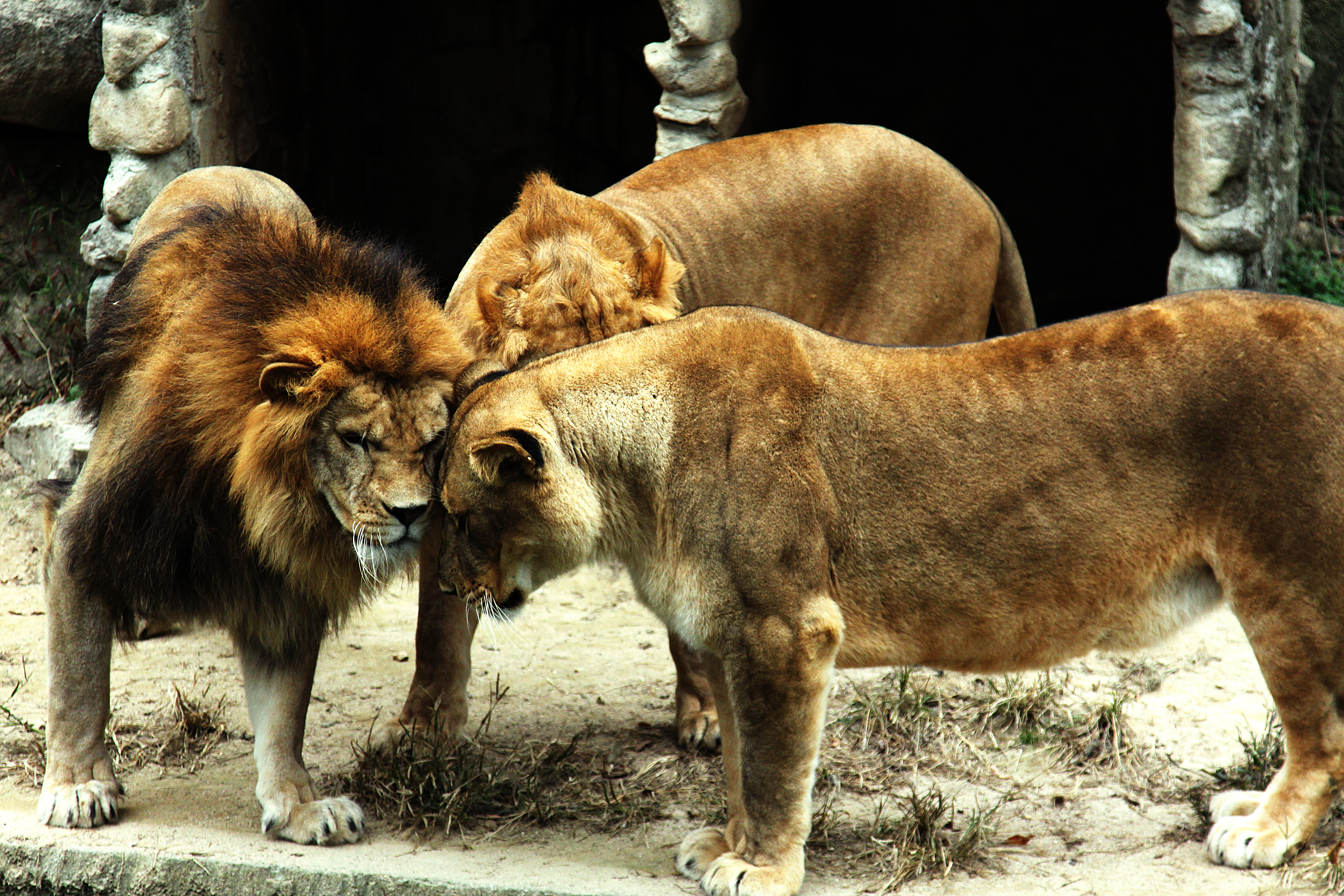 Lions at the Hiroshima City Asa Zoological Park playfully nudge each other Saturday. The lions play and socialize like any normal house cat, but aggressive grimaces and roars quickly reestablish the beasts as the kings of the jungle.